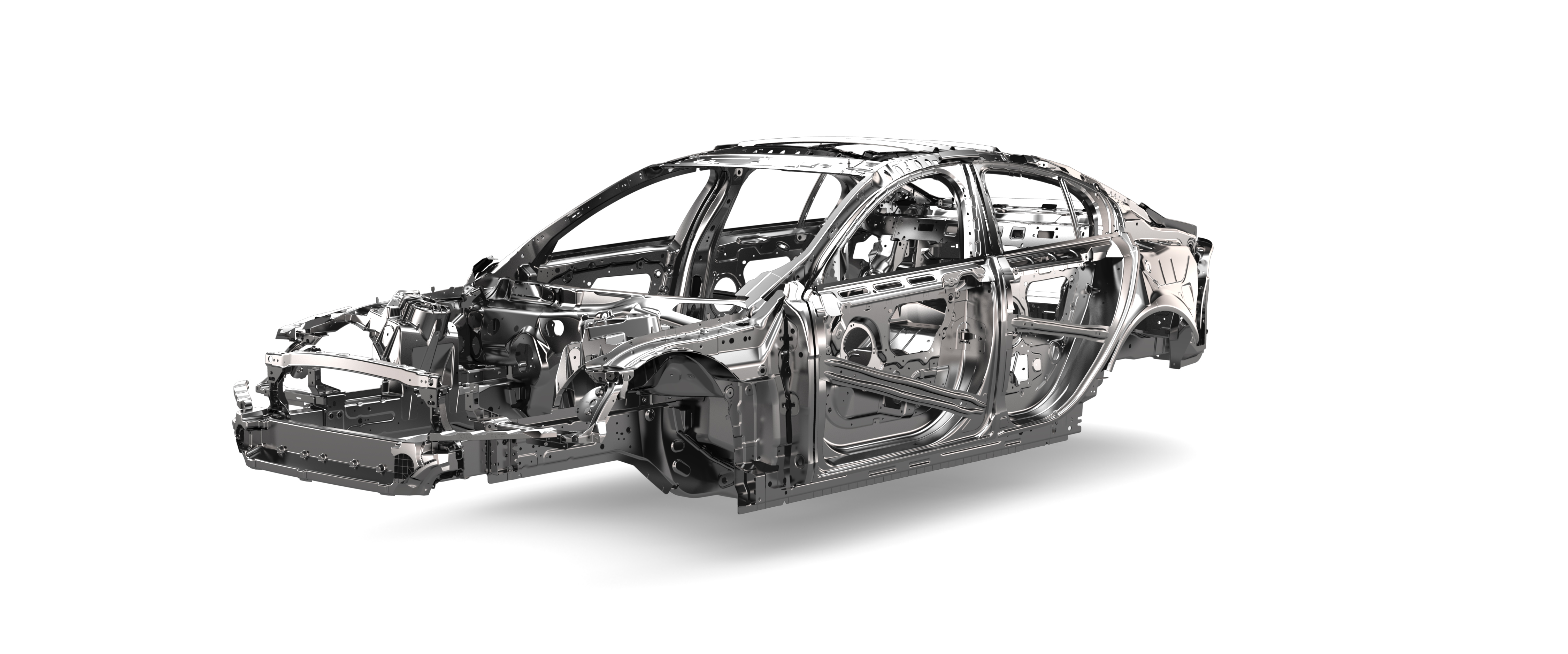 Jaguar XE Confirmed as New Name for Premium Sports Sedan with State-of-the-Art ‘Ingenium’ Engine Family and Advanced Aluminium Construction Technology